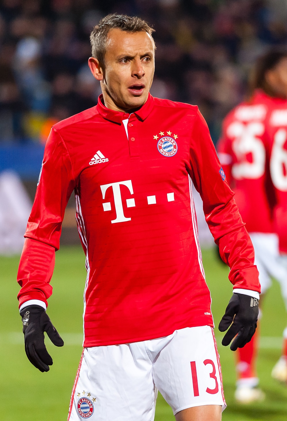 Rafinha with FC Bayern Munich in a Champions League game against FC Rostov.